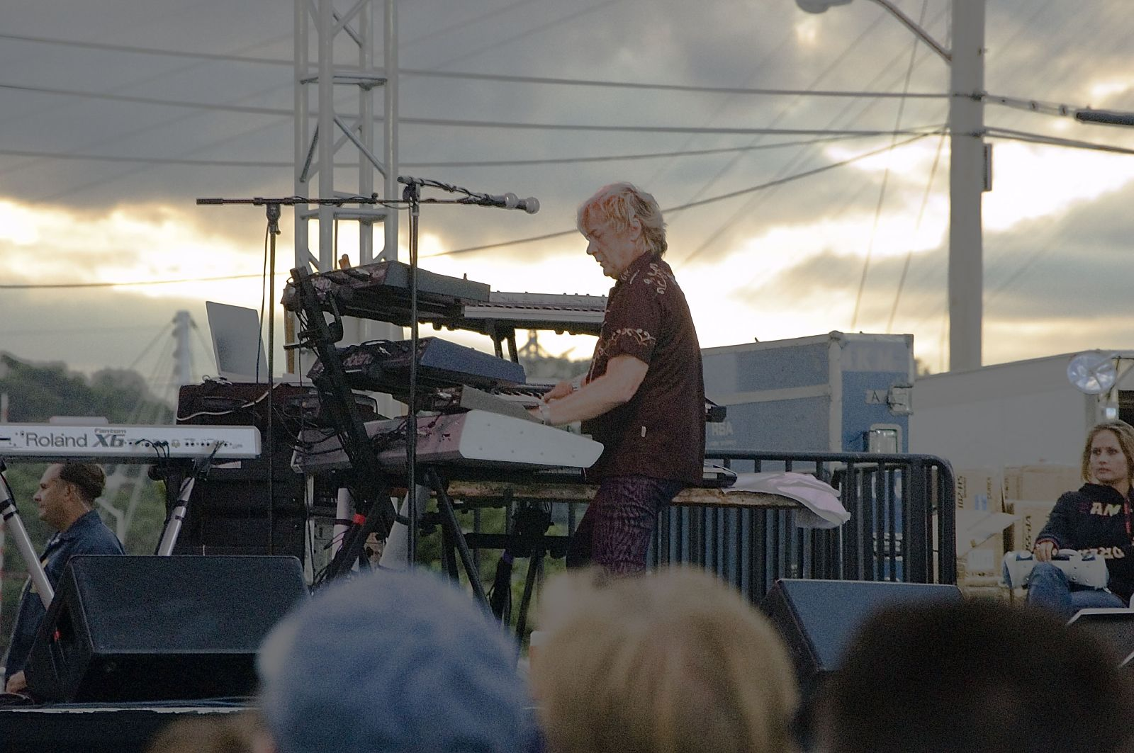 Geoff Downes